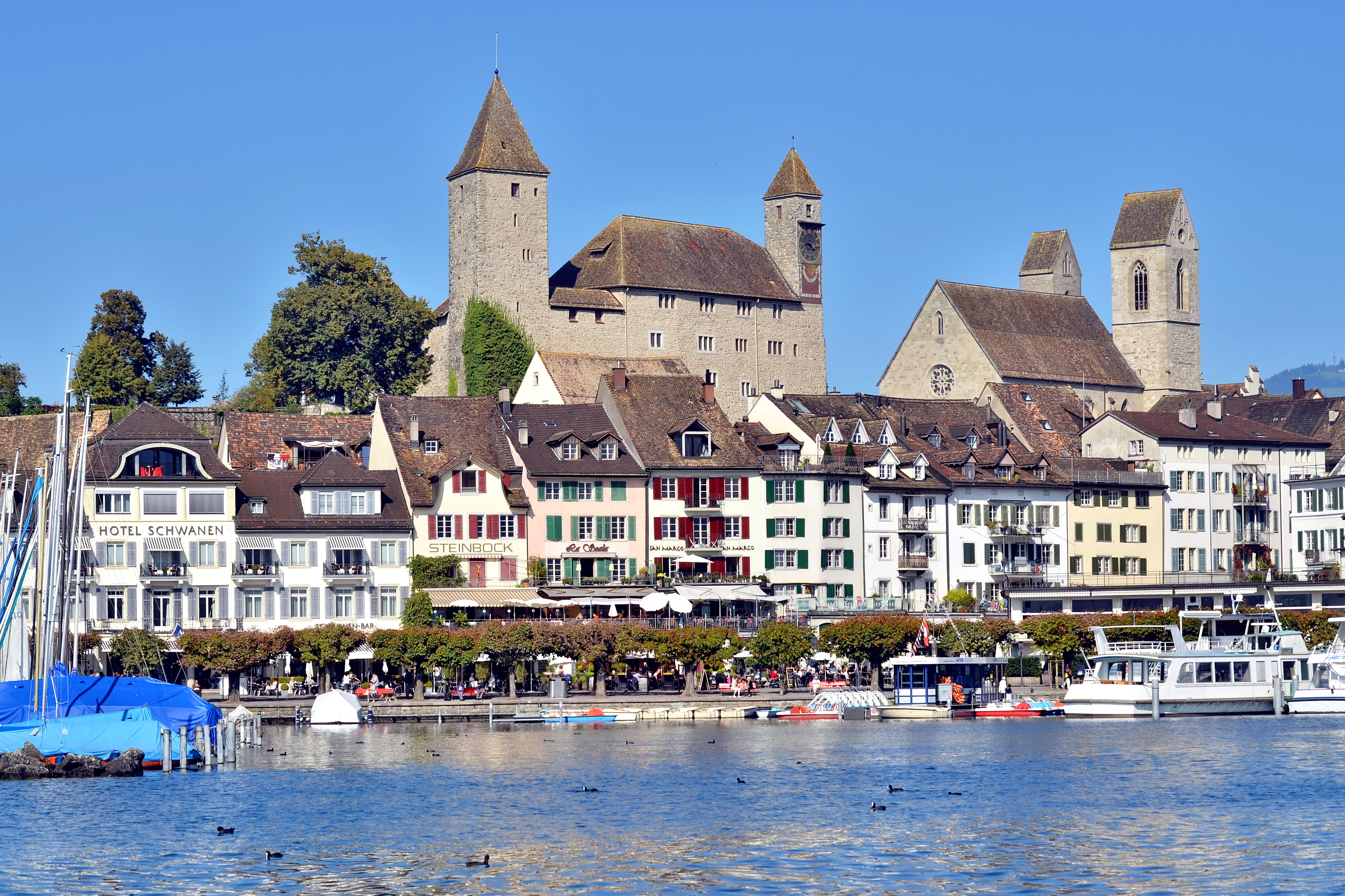 Harbour area in Rapperswil (Switzerland), as seen from Seedamm, Lindenhof hill, Rapperswil castle and Stadtpfarrkirche (St. John's Church) in the background, Fischmarktplatz to the right.